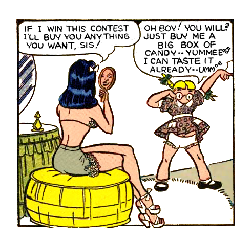 Katy Keene and Sis the Candy Kid from Pep number 61 (Archie Comics, May 1947). While the comic was aimed at a predominately female audience, stories contained a generous amount of fan service, usually in the form of Katy and Sis getting changed.